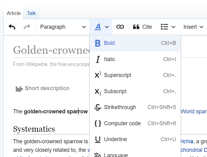 VisualEditor's text formatting menu, December 2013 version.